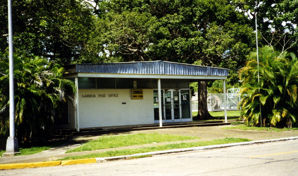 Gamboa's Post Office, bldg. 61 on the Gaillard Highway.